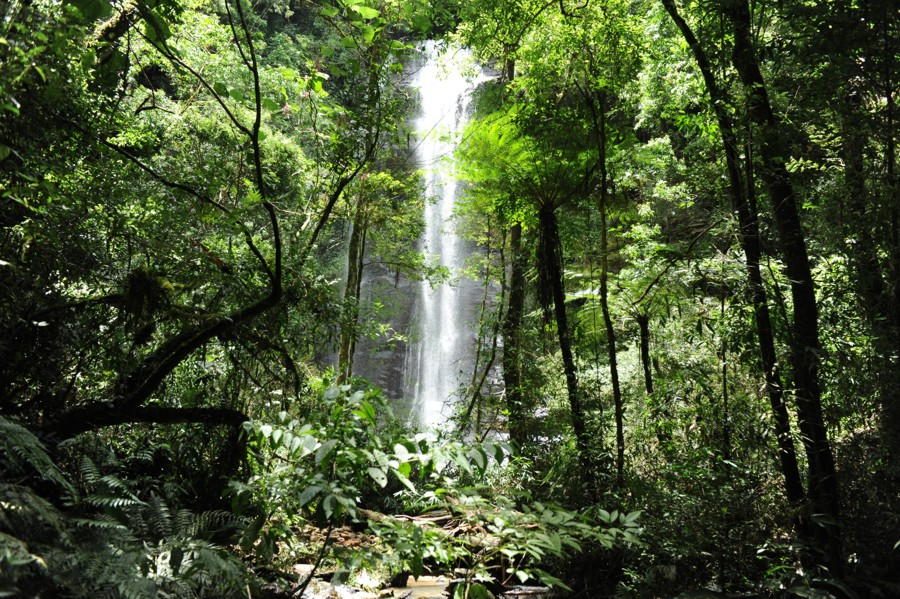 Waterfall with more than 30 meters in height located at RPPN Corredeiras do Rio Itajai (Atlântica Rain Forest Reserve), in Itaiopolis Municipality of Santa Catarina State, Brazi